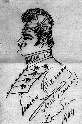 Enrico Caruso's sketch of himself as Don José in Carmen, ca. 1904. from Harmonie Autographs and Music, Inc., New York, NY